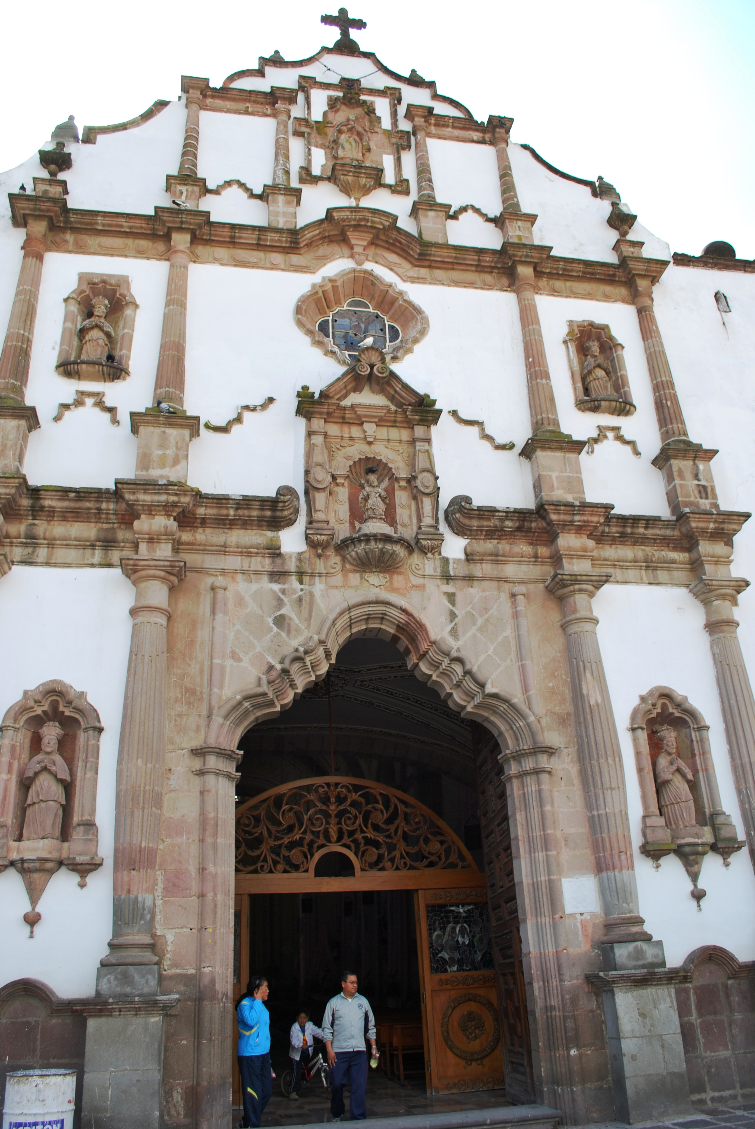 Facade of the Asunción de María Church in Tenango del Valle, Mexico State